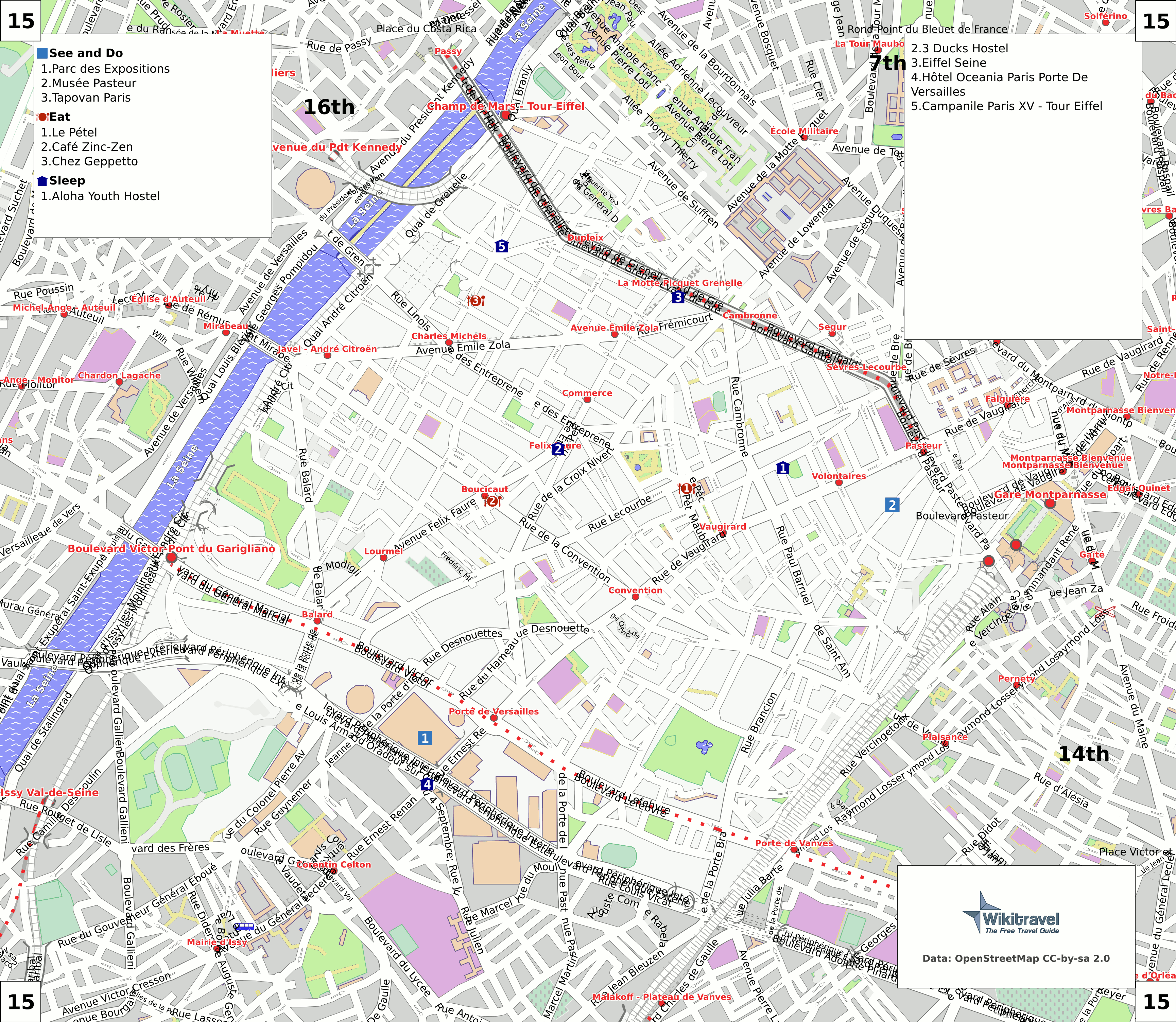 Map of the 15st arrondissement of Paris.